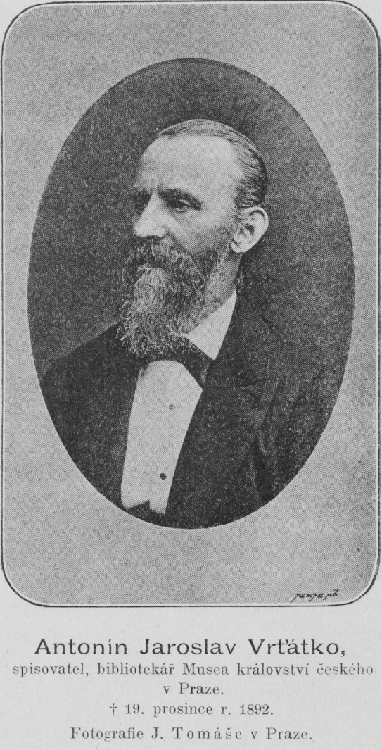 Photograph of Antonín Jaroslav Vrťátko (1815 - 1892), Czech writer and librarian.